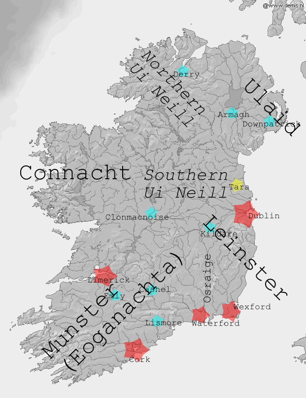 Map of Ireland, circa 900. To accompany the Flann Sinna article. Information from the Gill & Macmillan Atlas of Irish History